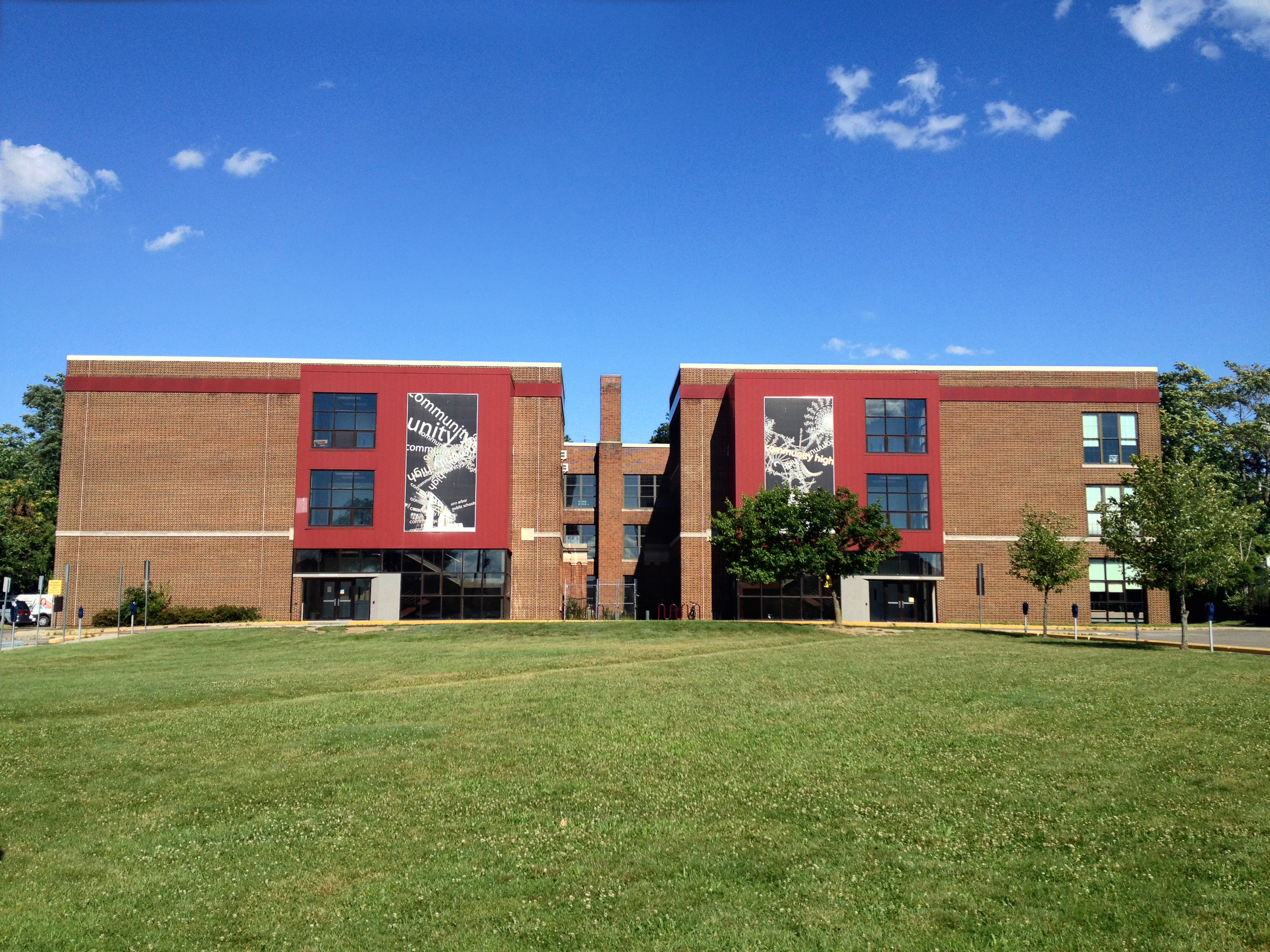 Rear (western) entrance to Community High School in Ann Arbor, Michigan (summer 2015).